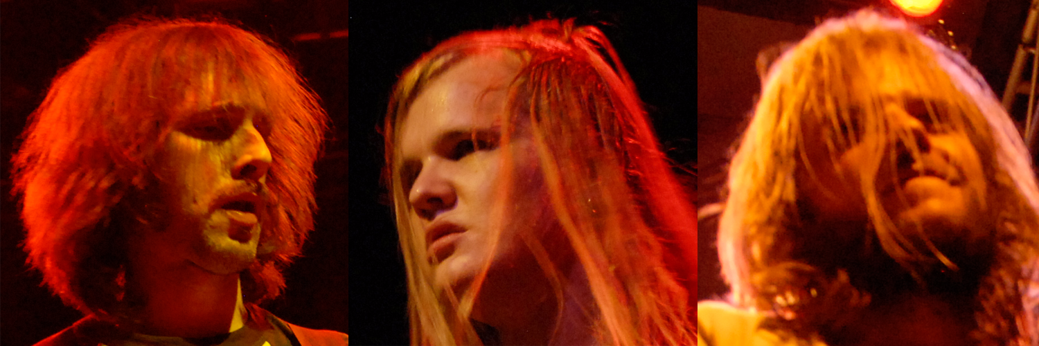 The official members of American heavy metal band The Sword.